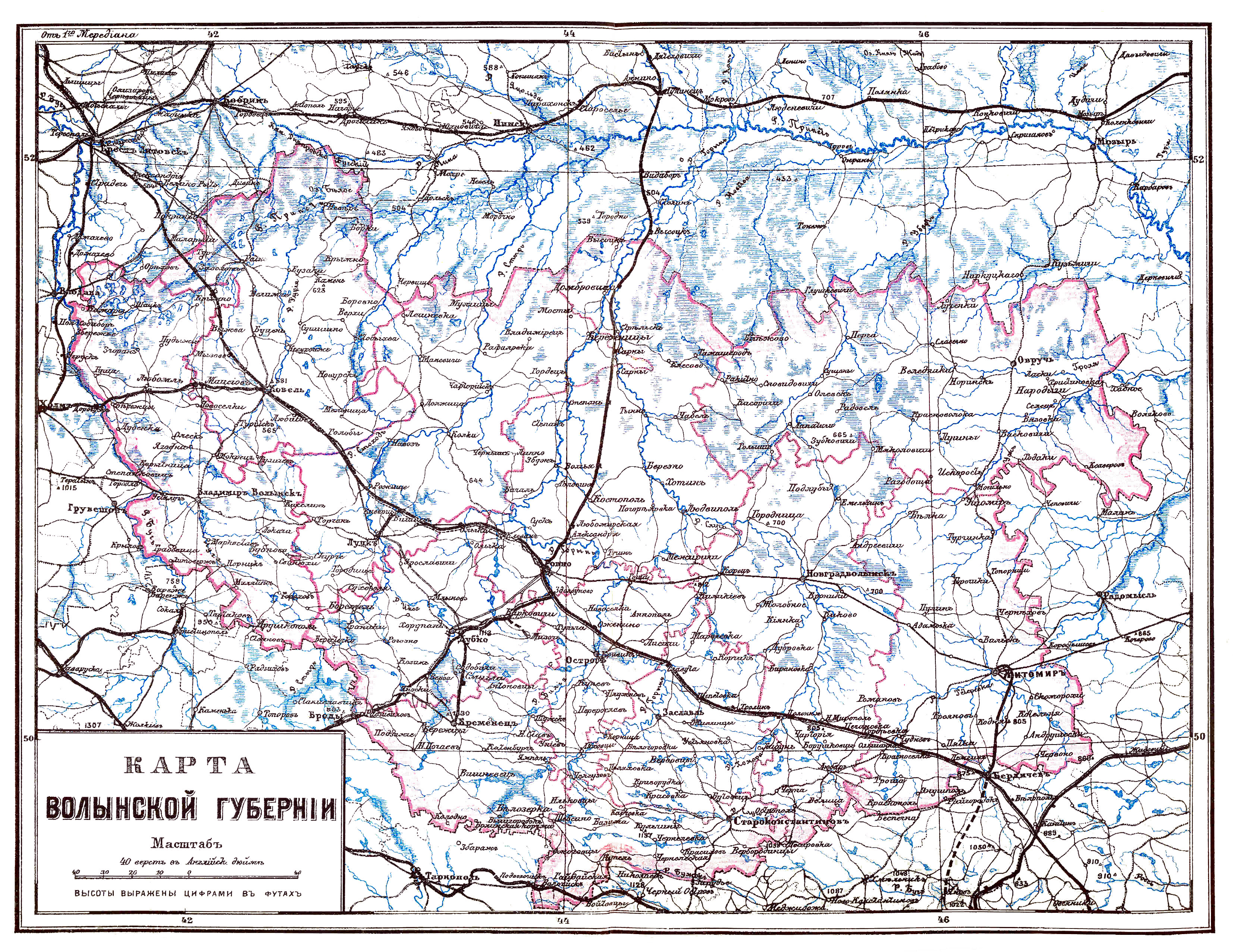 Illustration from Brockhaus and Efron Encyclopedic Dictionary (1890—1907)